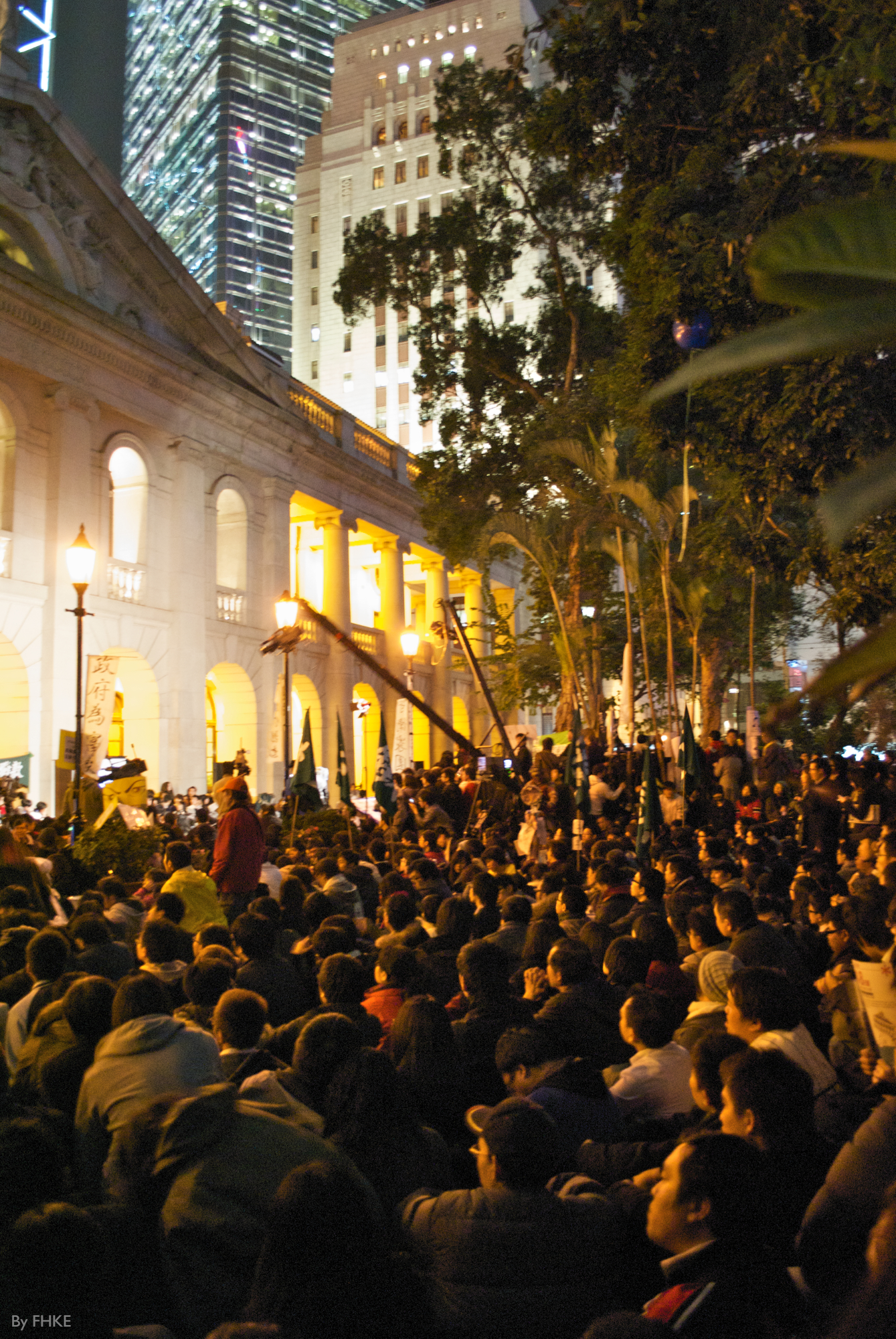 Opposition to the Guangzhou-Hong Kong Express Rail Link